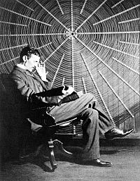 Nikola Tesla, with Rudjer Boscovich's book "Theoria Philosophiae Naturalis", in front of the spiral coil of his high-voltage Tesla coil transformer at his East Houston St., New York, laboratory.